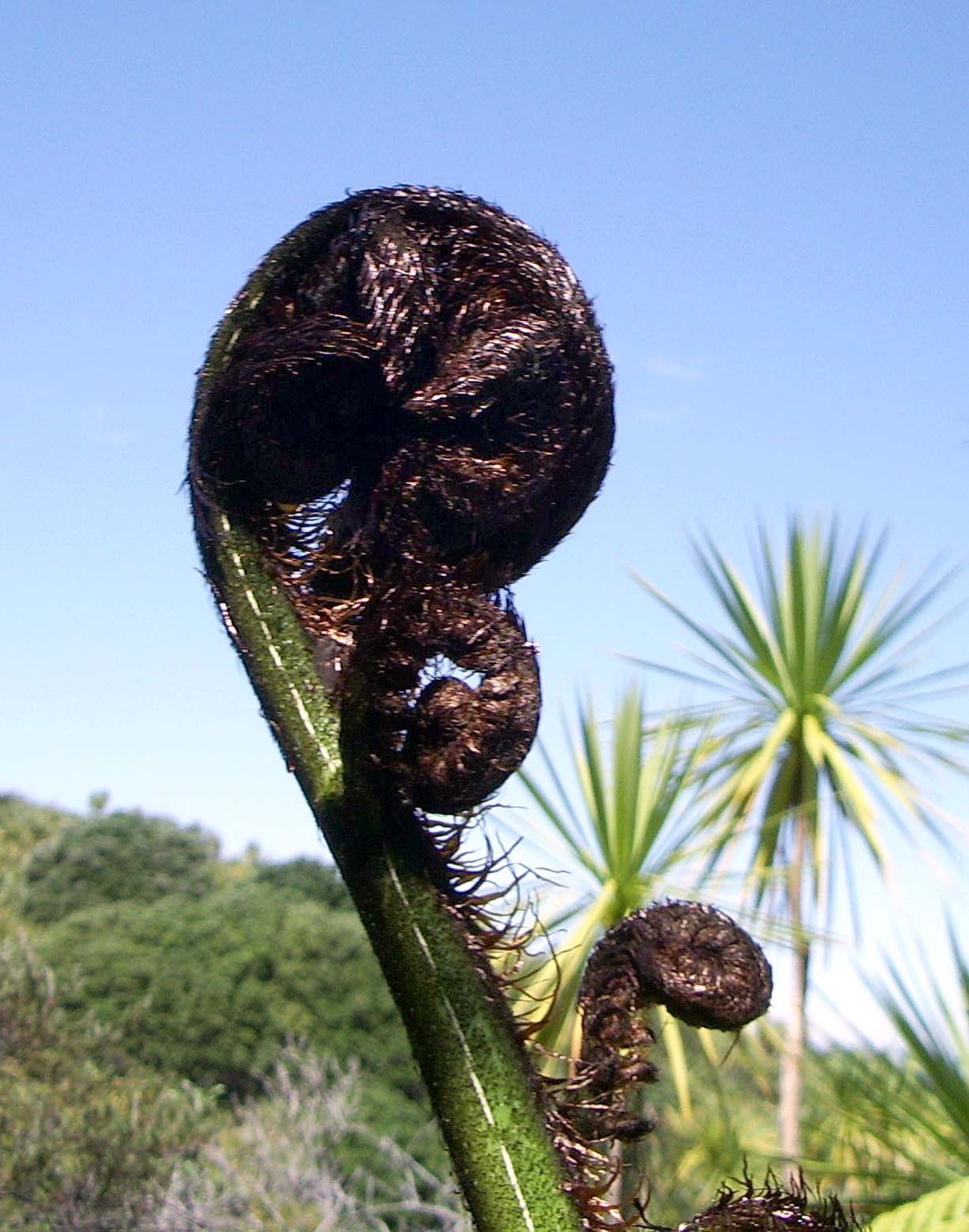 A fiddlehead of a Black Tree Fern (Cyathea medullaris) Location: Tiritiri Matangi Island